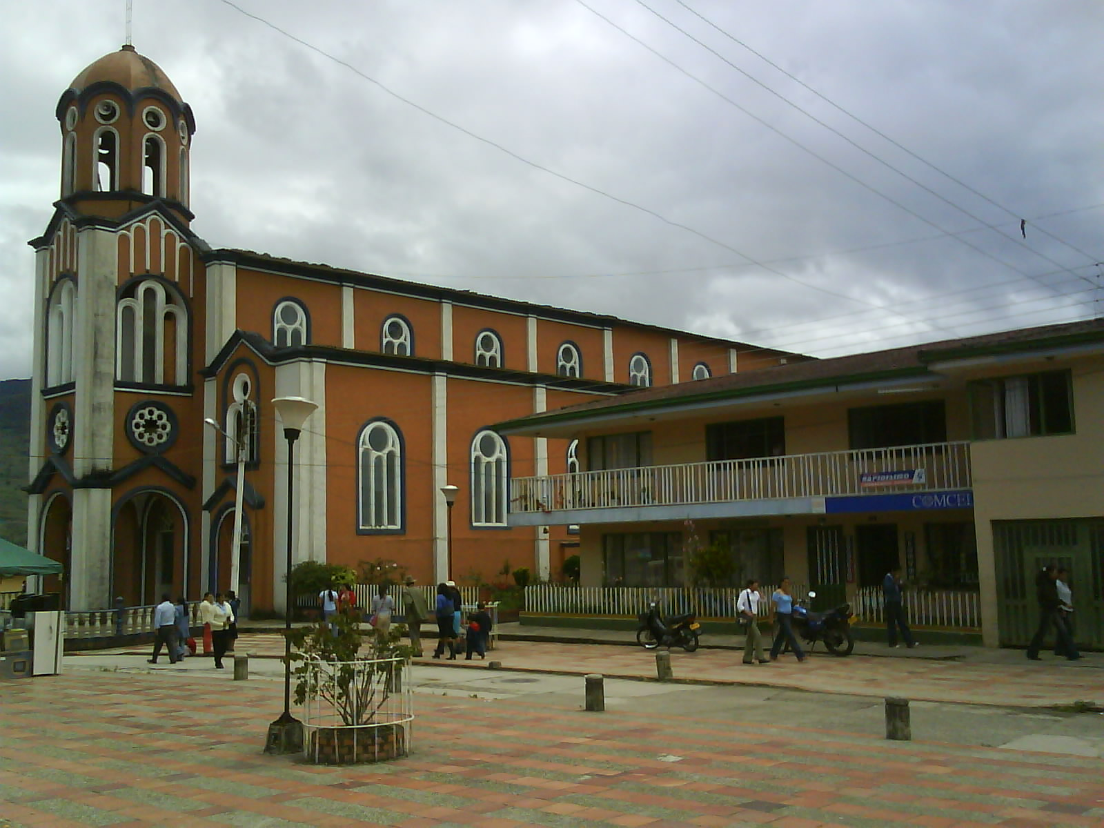 Main Park